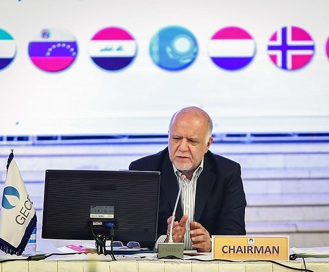 Third GECF summit, Tehran, Iran